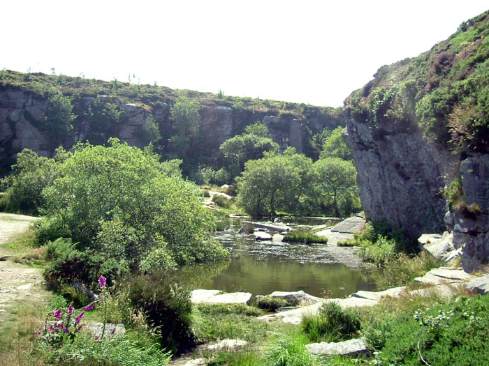 Quarry on Hay Tor, Dartmoor, Devon. Early afternoon 15 July 2005 (or a few days before).